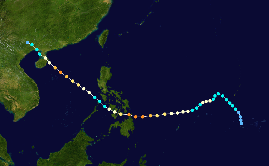 Typhoon Ike (1984) track. Uses the color scheme from the Saffir-Simpson Hurricane Scale.